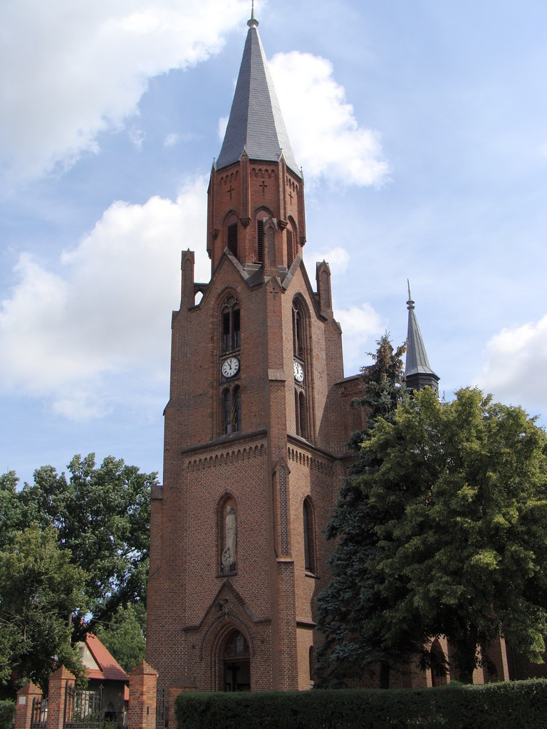 Brodnica, church of St. Katarzyna.